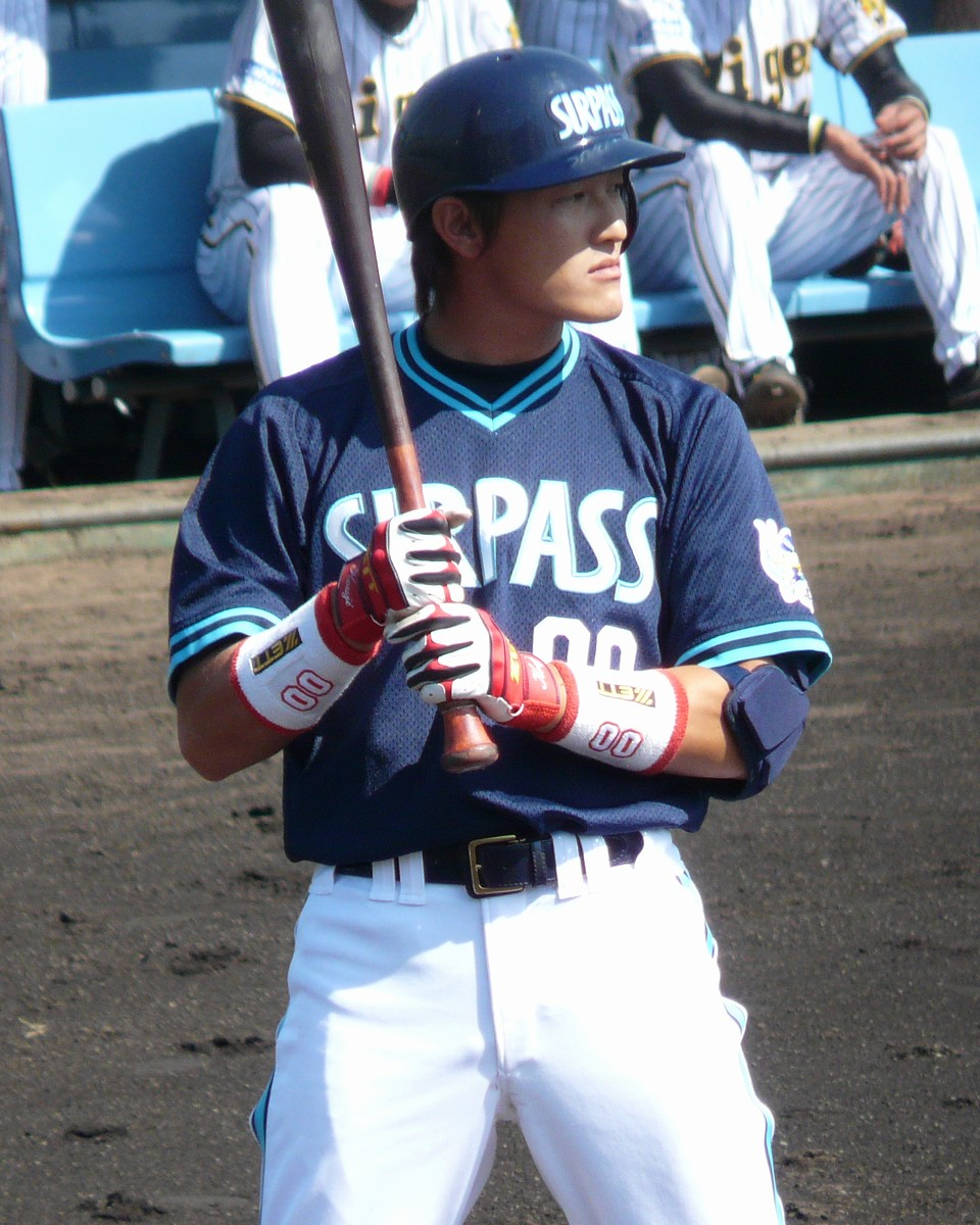 Koji Yamasaki, infielder of the Surpass, at Hanshin Naruohama Baseball Ground.